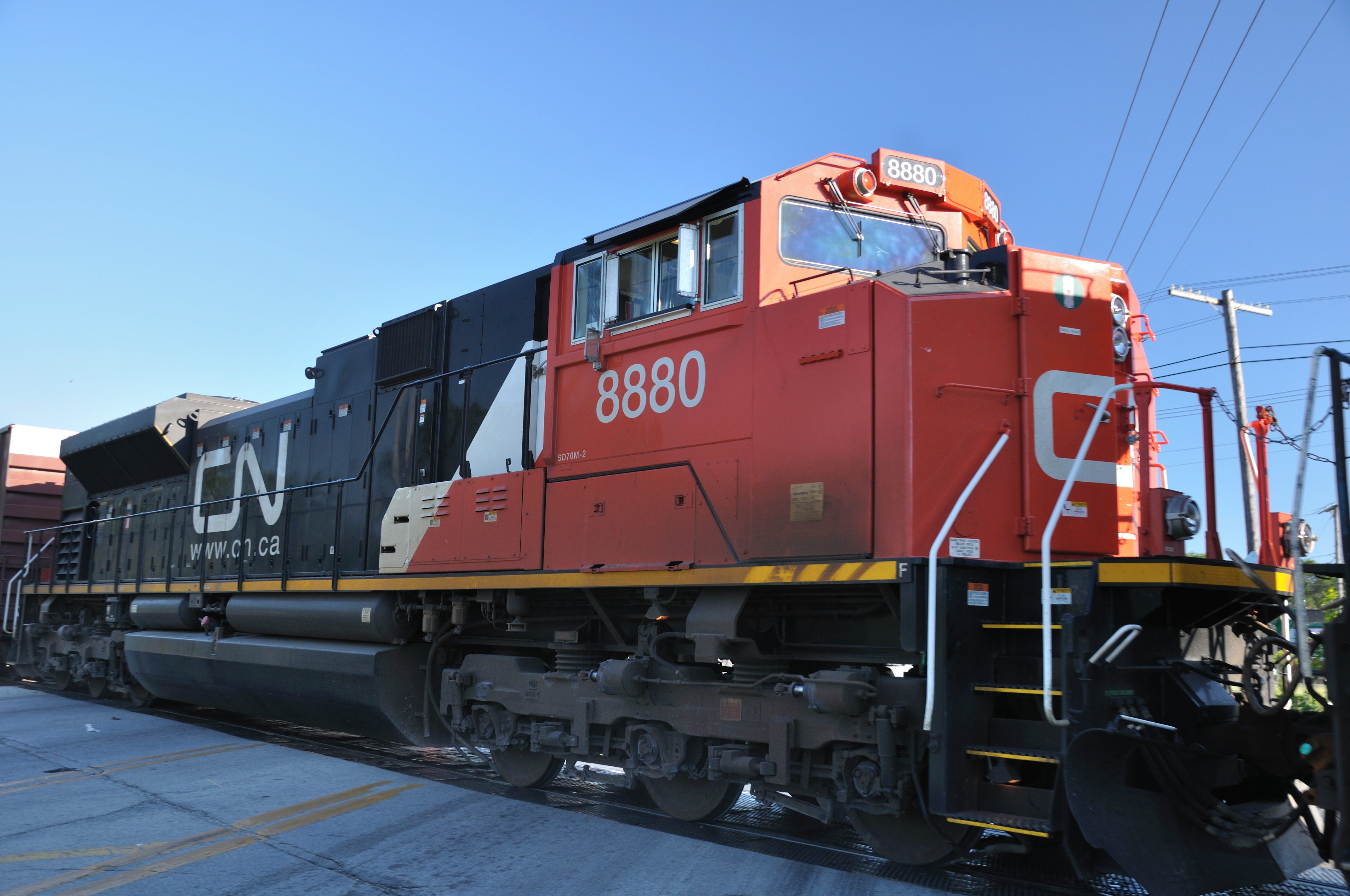 CN 8880 rolls past Wood Street Crossing in Harvey